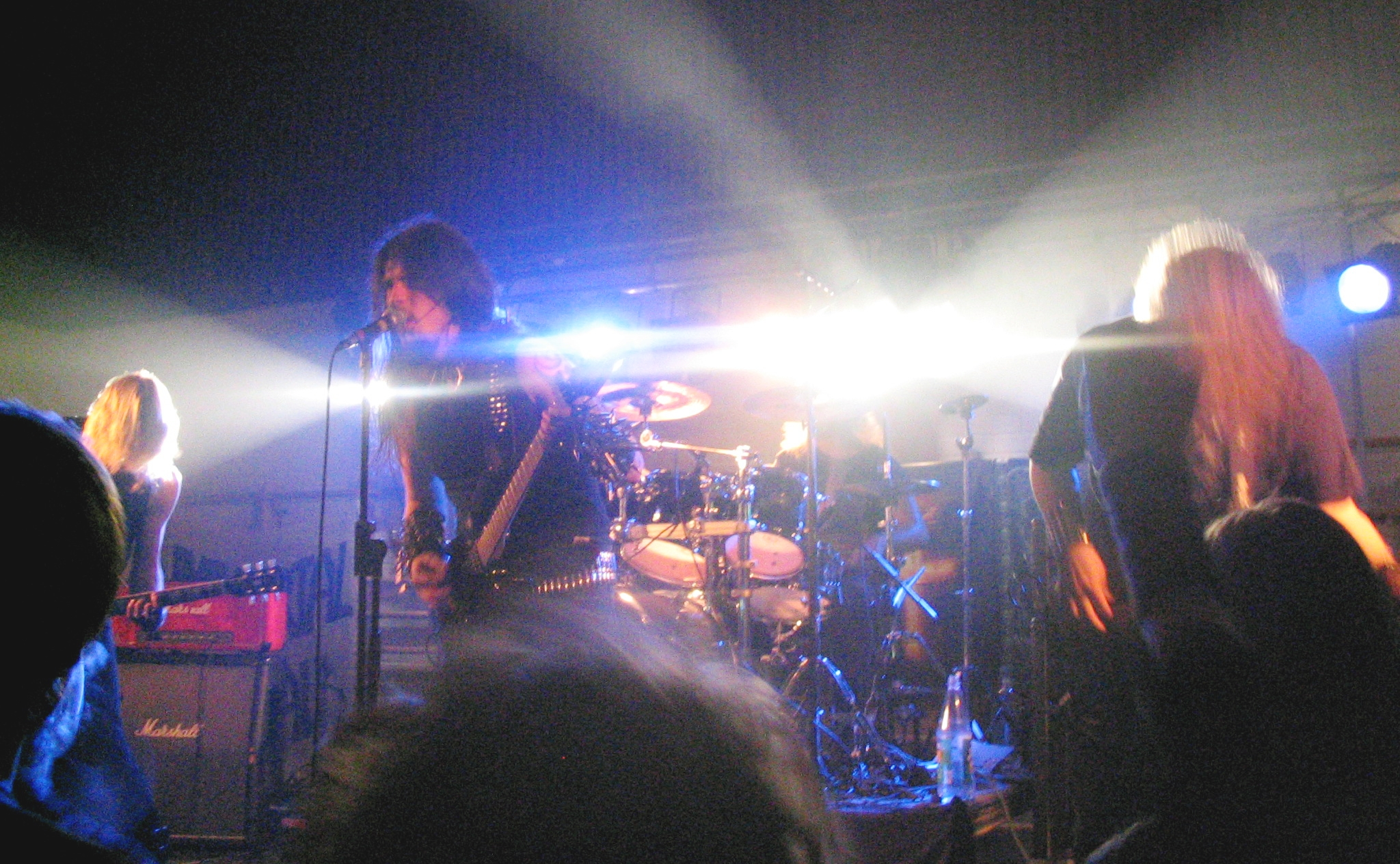 Norwegian black metal musical group Frosthardr performing live at Immortal Metal Fest 2005.